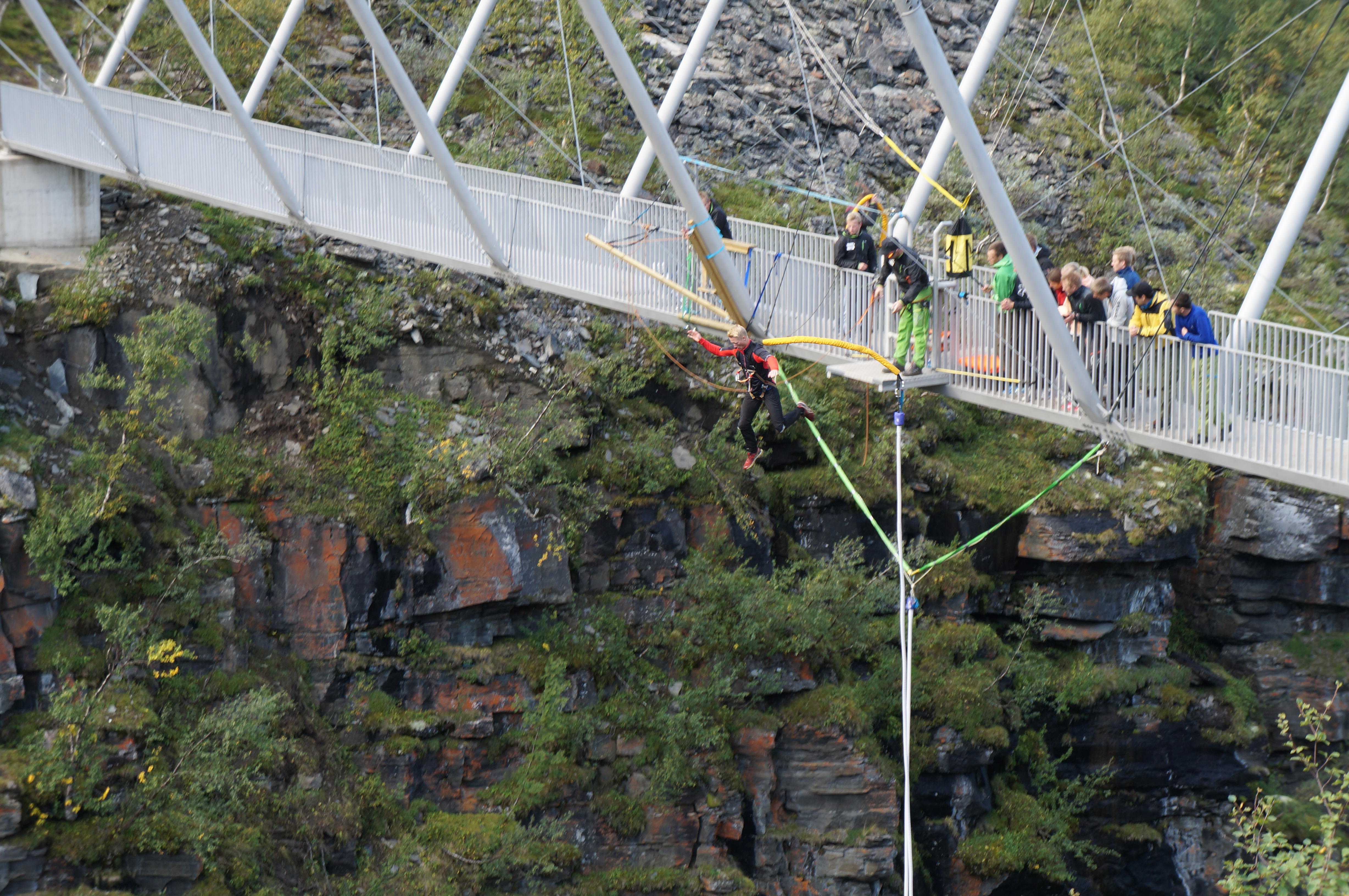 Exiting the Gorsabrua platform 153 meters above the gorge in Sabetjohk, Birtavarre, Norway